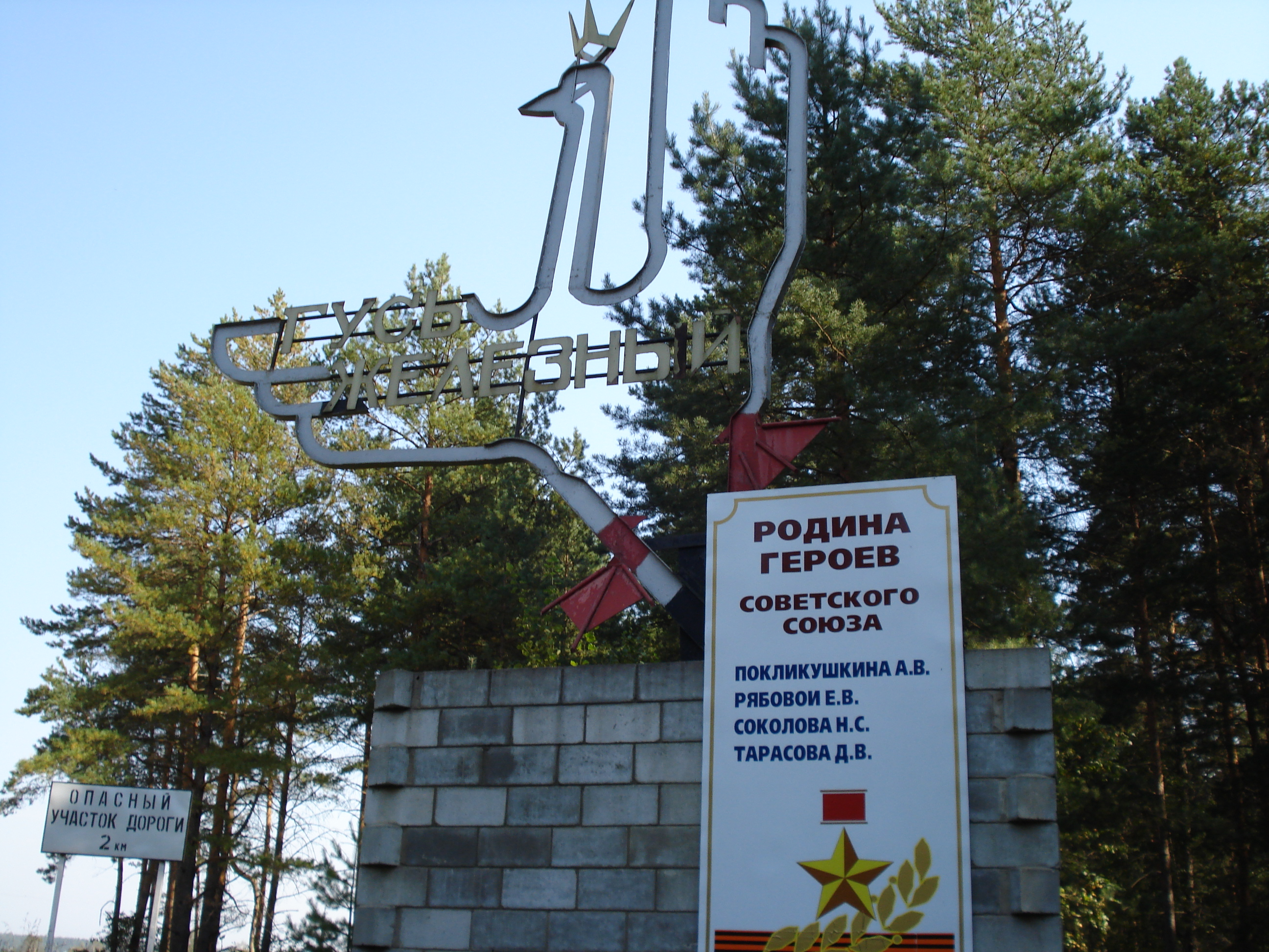 The stele at the entrance to Gus-Zhelezny